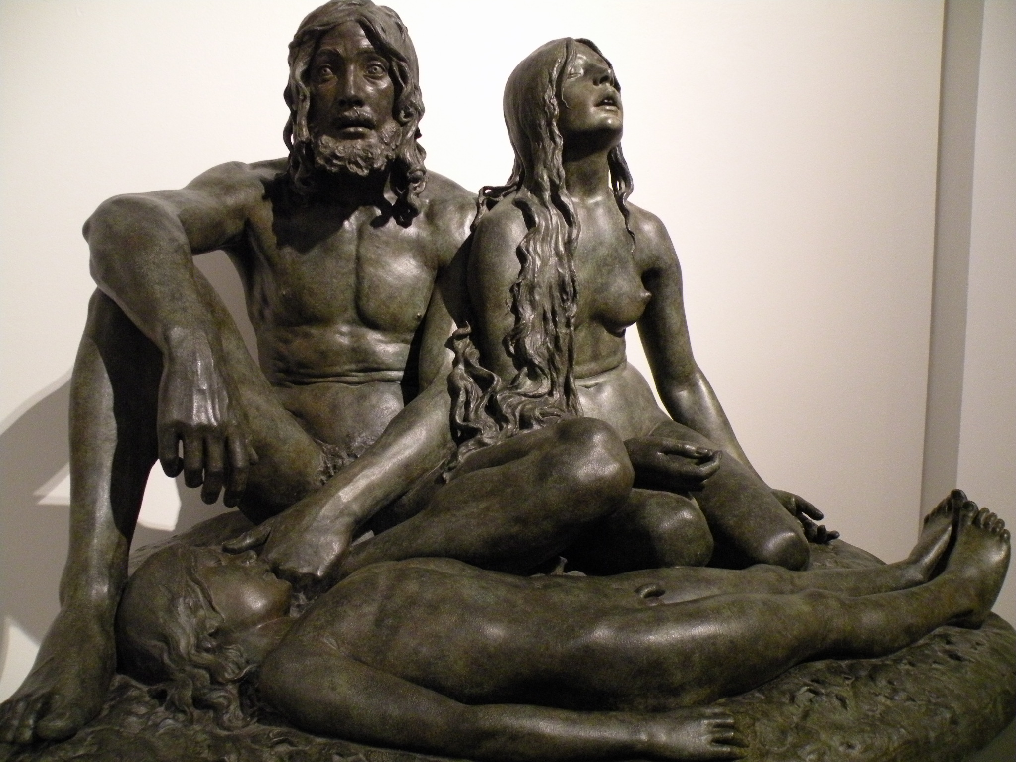 Adam and Eve with the Body of Abel (by Carl Johan Bonnesen, photographed at the Statens Museum for Kunst, Copenhagen, Denmark